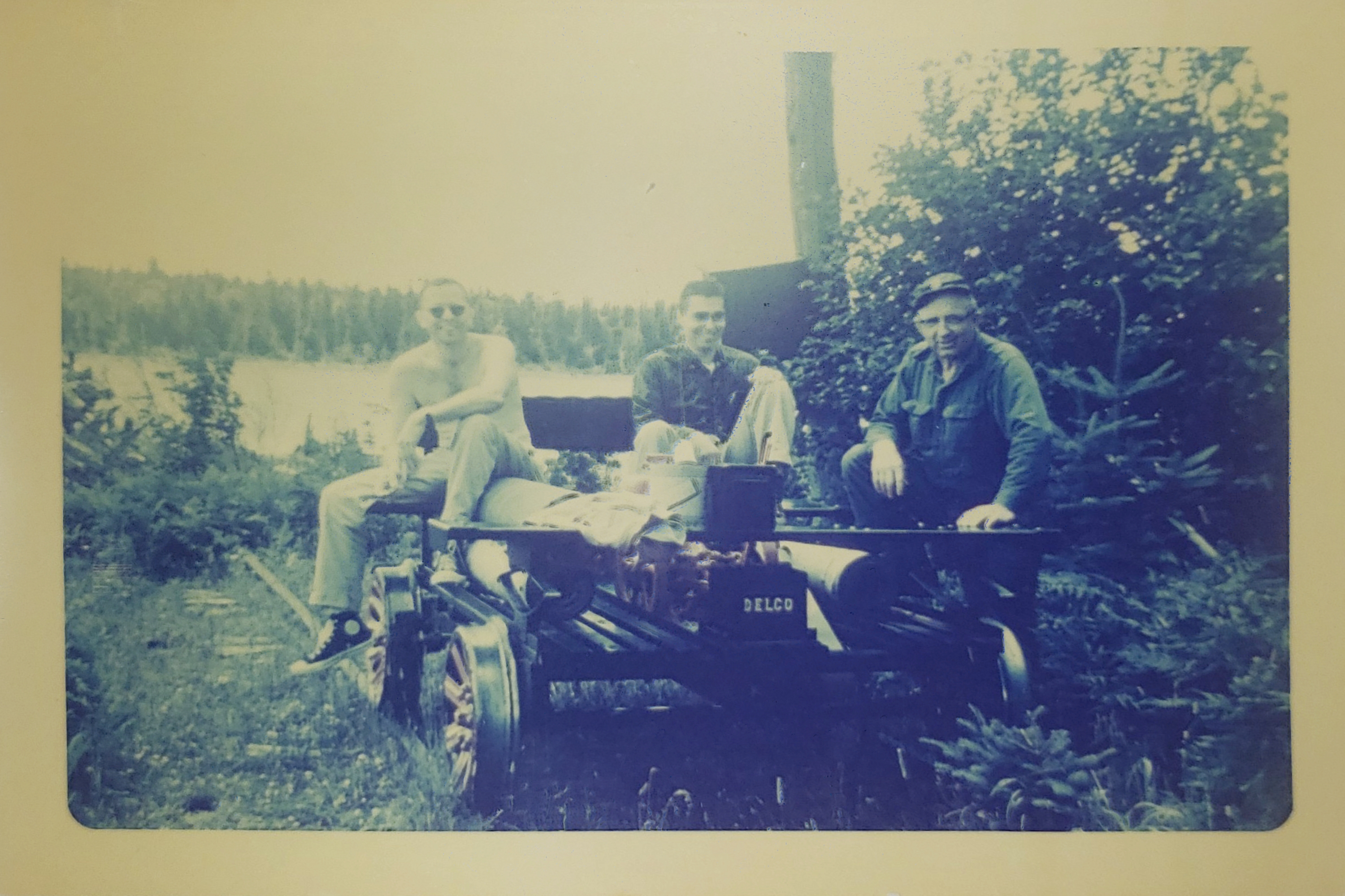 Motorized railcart on Eagle Lake in August 1961. Dolph was a Maine guide and spent the summer at the Eagle Lake ranger station in the 1960's.